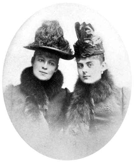 This is the last photograph of Baroness Mary Vetsera (R), and shows her wearing the dress in which she was buried. On the (L) is Countess Marie Larisch, a go-between for Mary and Crown Prince Rudolf of Austria.